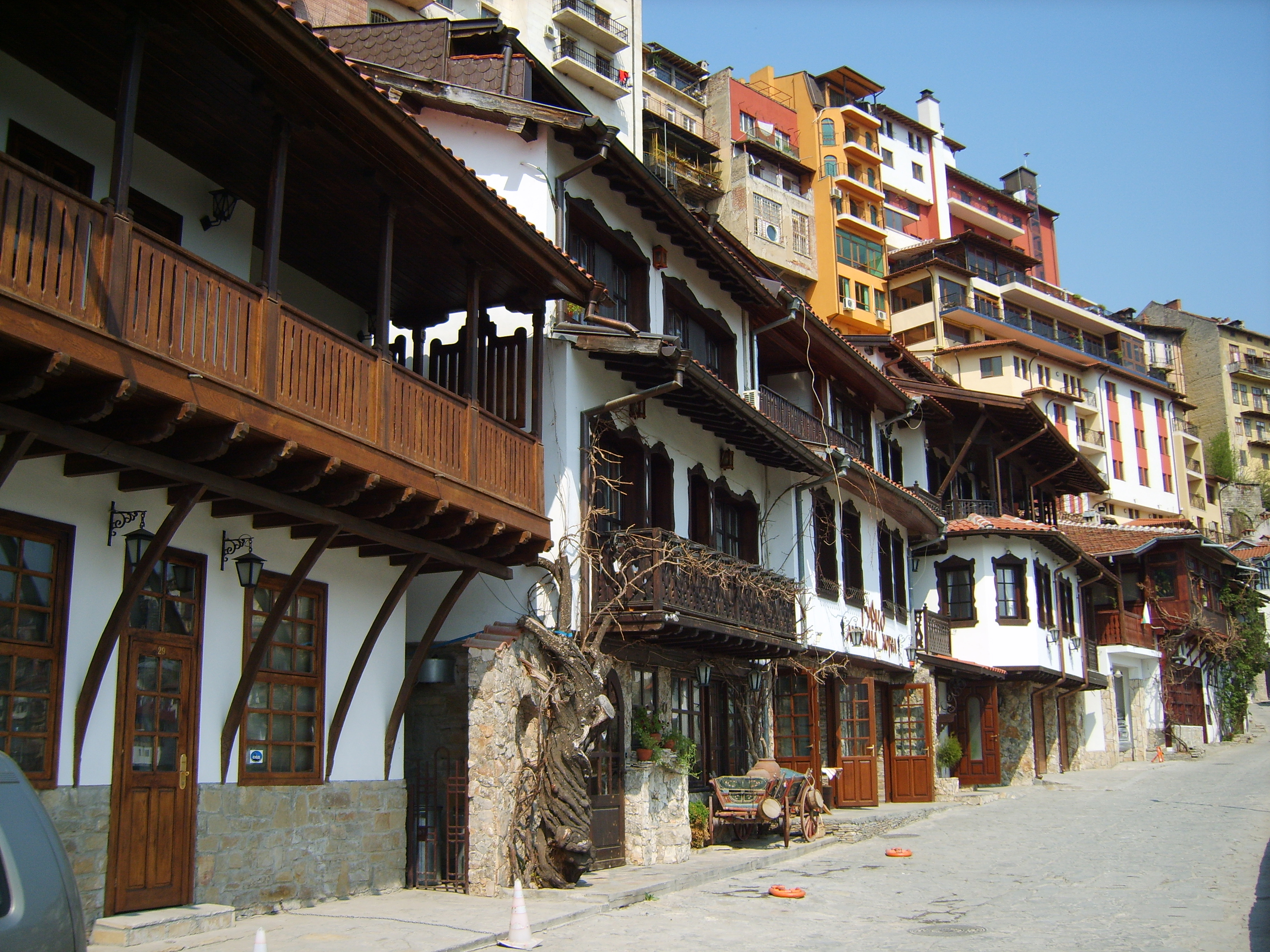 Gourko Street in Veliko Tarnovo